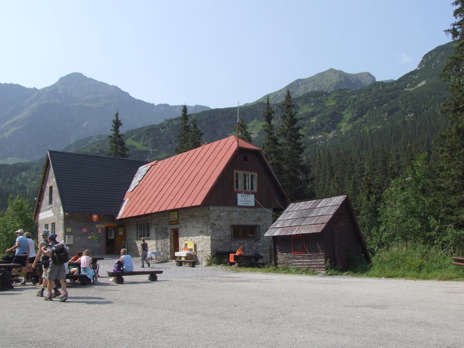 Bufet Rohacki (Ťatliakowa Chata) - West Tatra Mountains